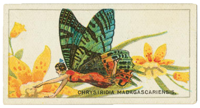 Chrysiridia rhipheus Cigarette card